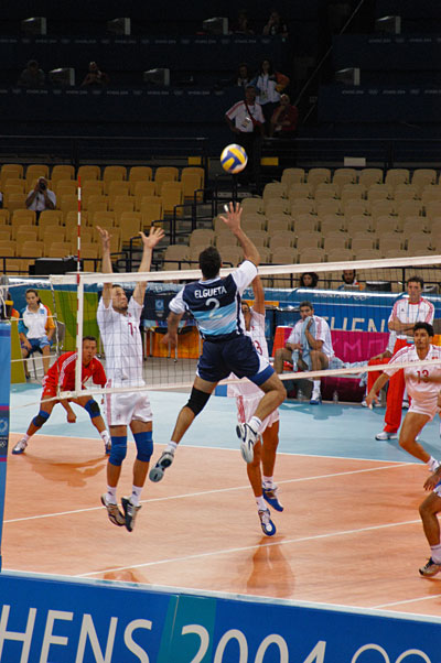 Volleball at Summer Olympics 2004.